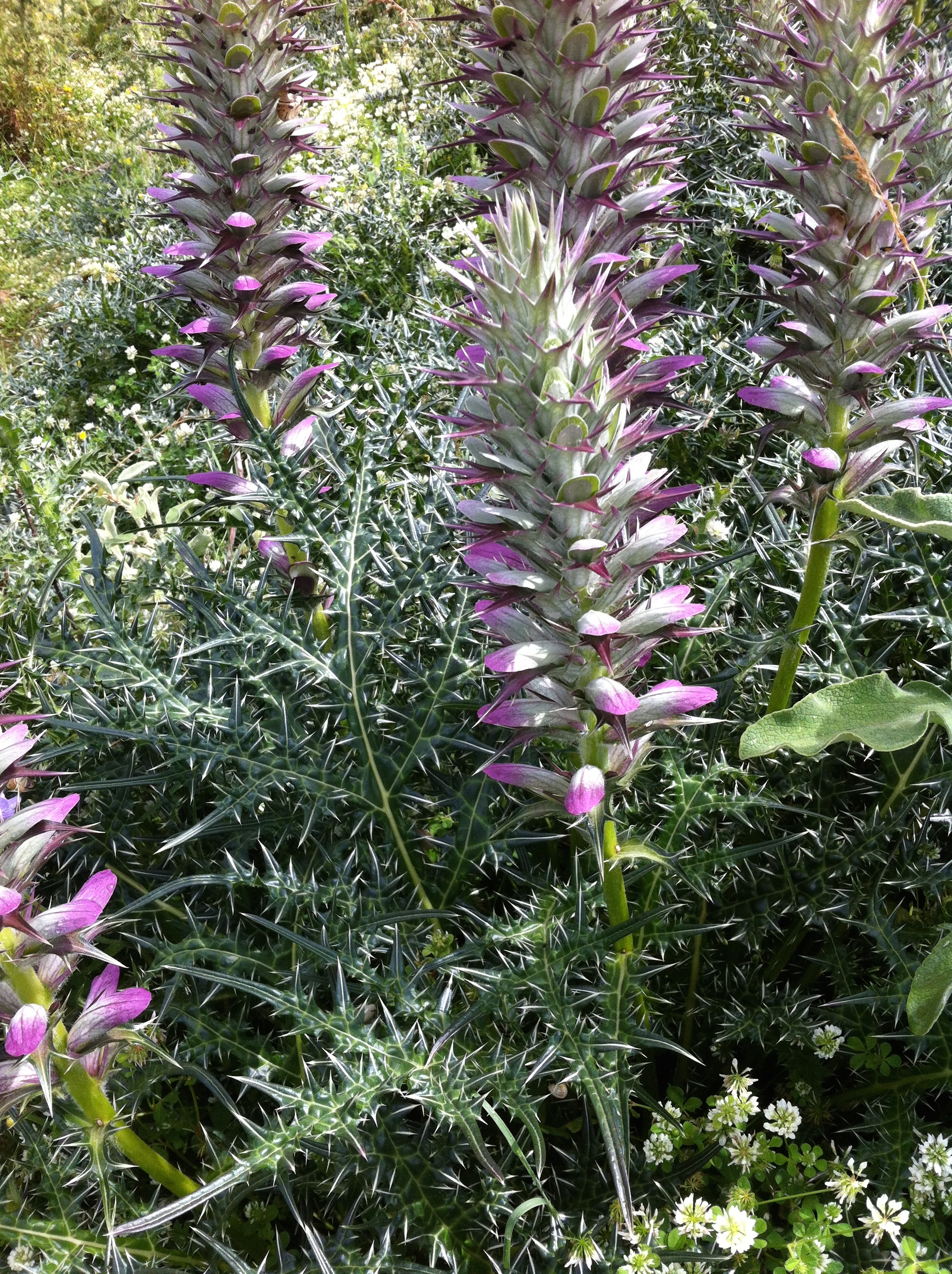 Acanthus spinosus in Montenegro